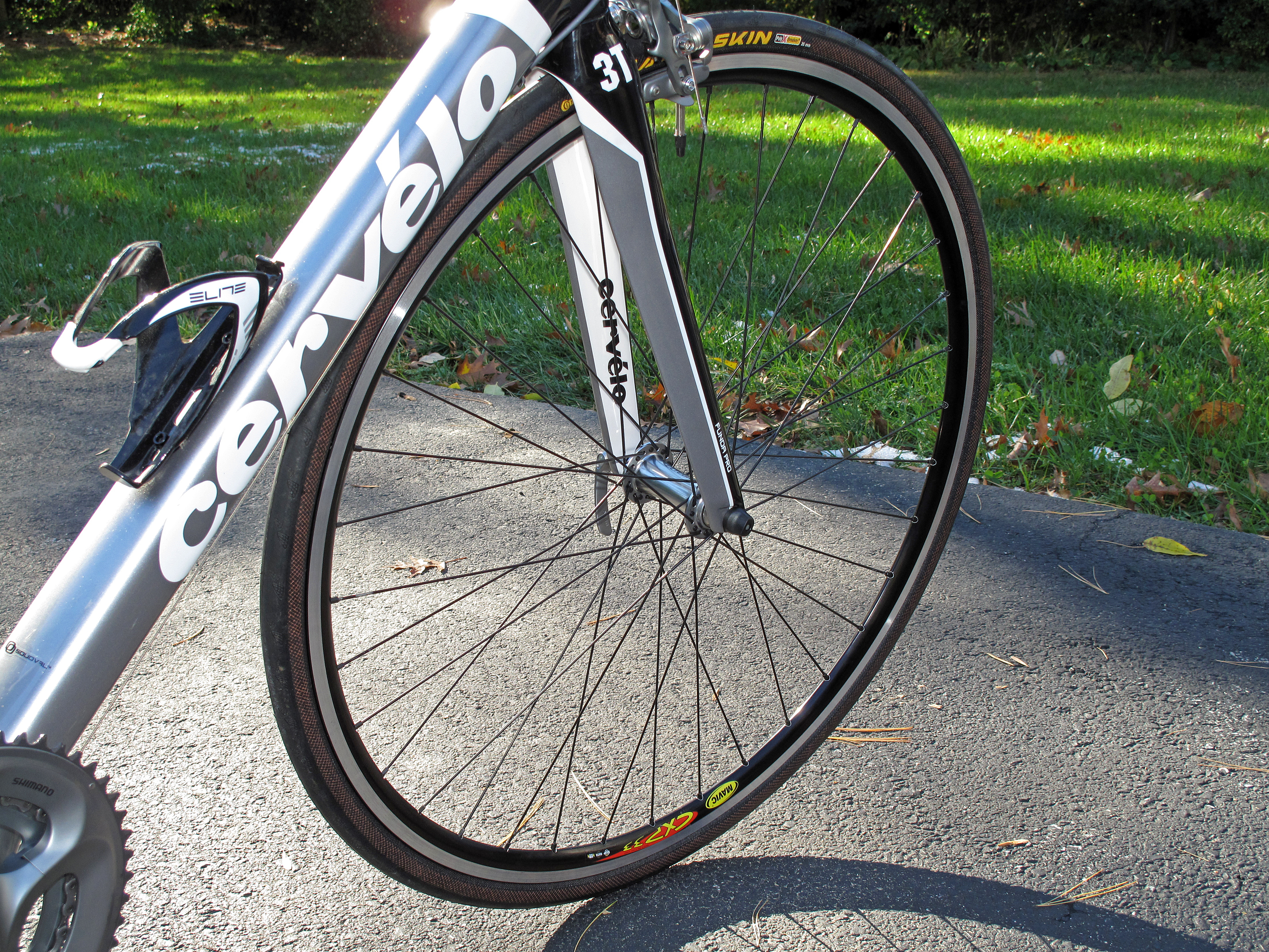 Front wheel and fork of a 2010 model year Cervélo RS road bike